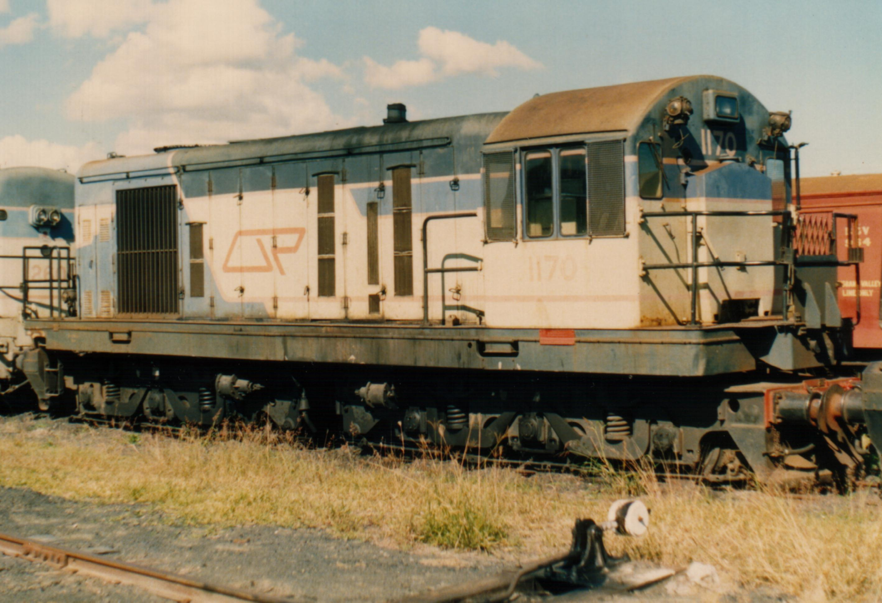 Class leader 1170 in storage at Redbank Workshops on 17 August 1988